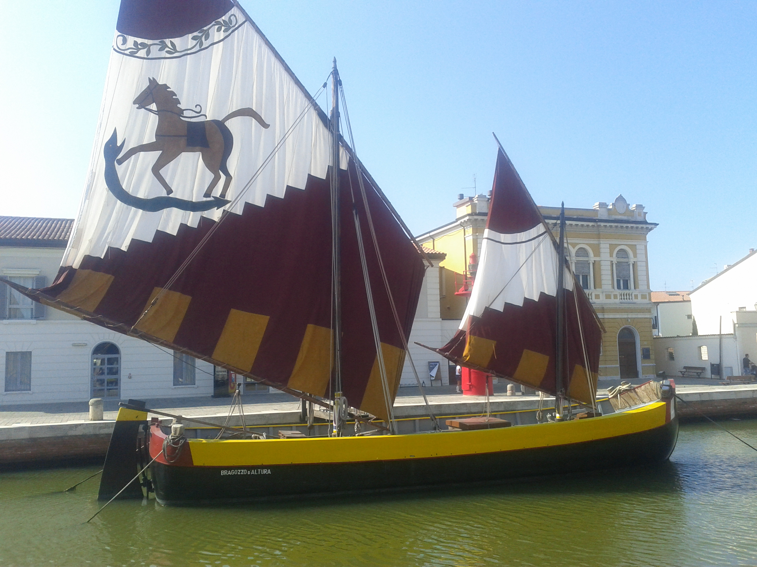 A "Bragozzo d'altura" at the Cesenatico museum (Italy)